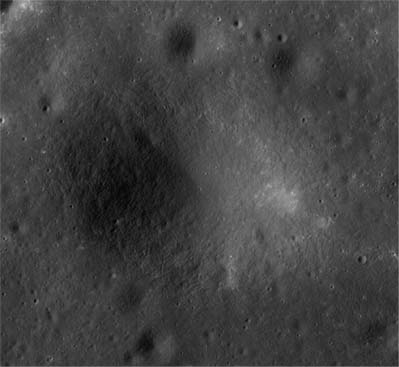 Ravi lunar crater - LROC NAC image M104527070LC.